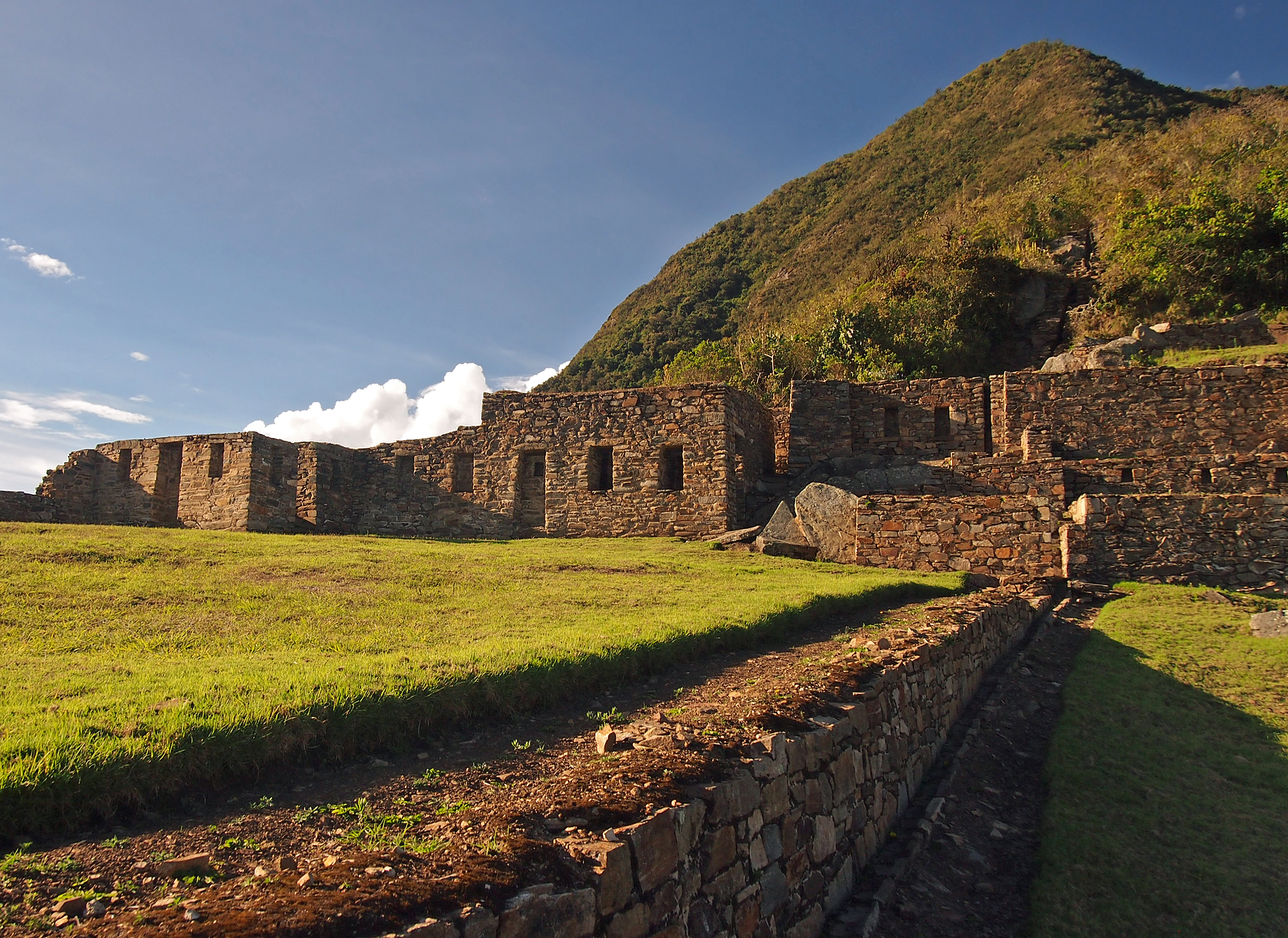 Sector I (upper plaza), Choquequirao, Cusco Region, Peru. Viewed from the south.